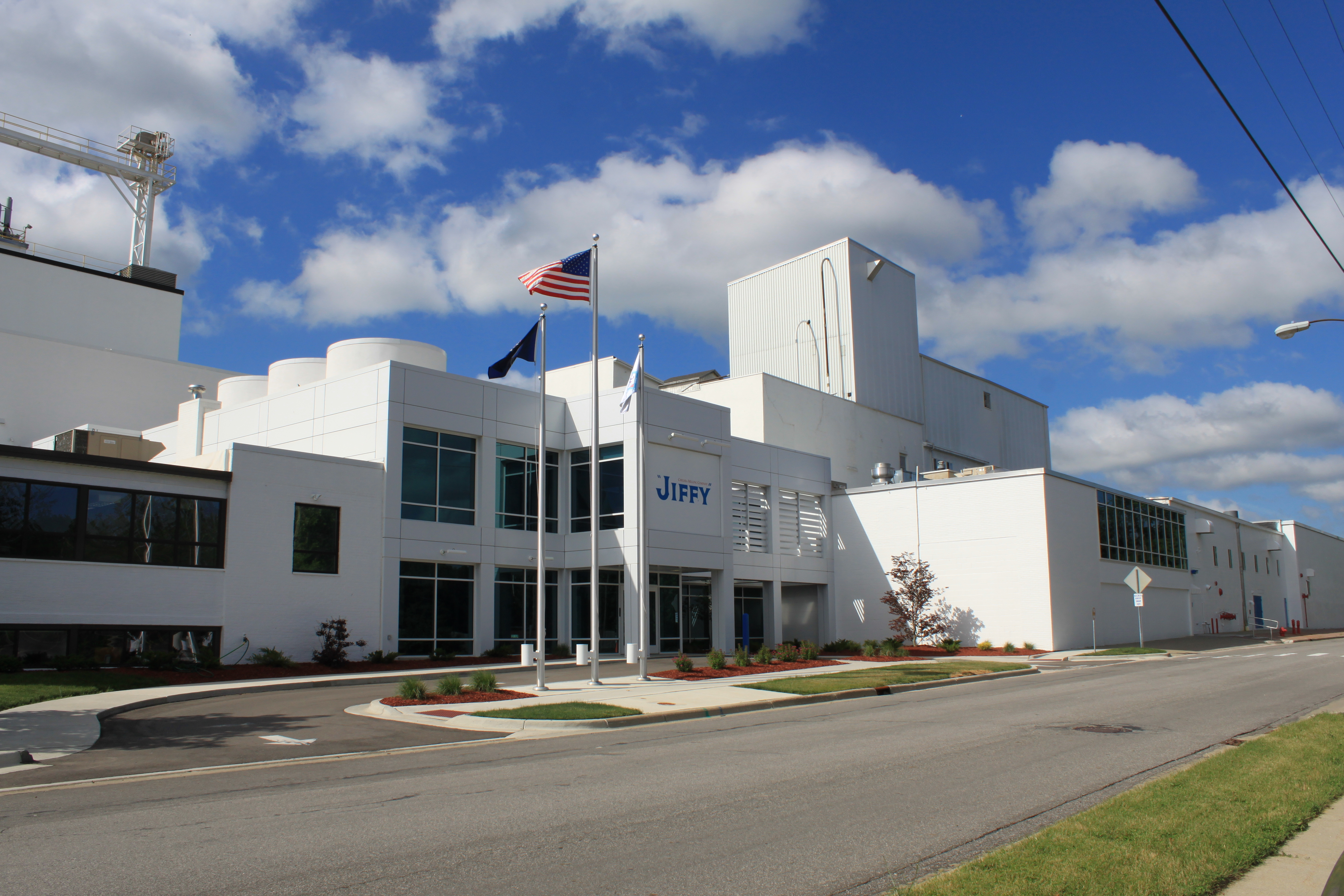 Chelsea Milling Company, 201 West North Street, Chelsea, Michigan-Jiffy Mixes